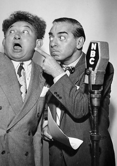 Photo of Eddie Cantor and Bert Gordon from NBC Radio program.